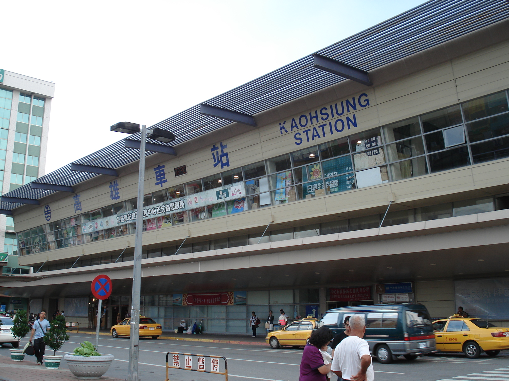 台鐵高雄車站新站體正面。 Front view of the new building of Kaohsiung Station of Taiwan Railway Administration.